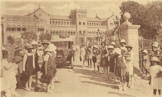 St Joseph Convent catholic high school, Karachi